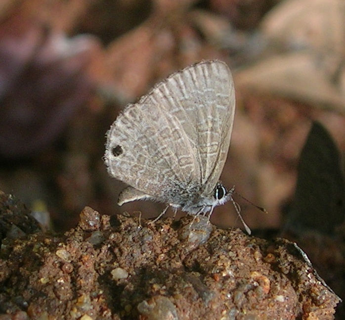 Nacaduba kurava (Determination S. Karthikeyan) Lycaenidae. Javadi Hills, Tamil Nadu.